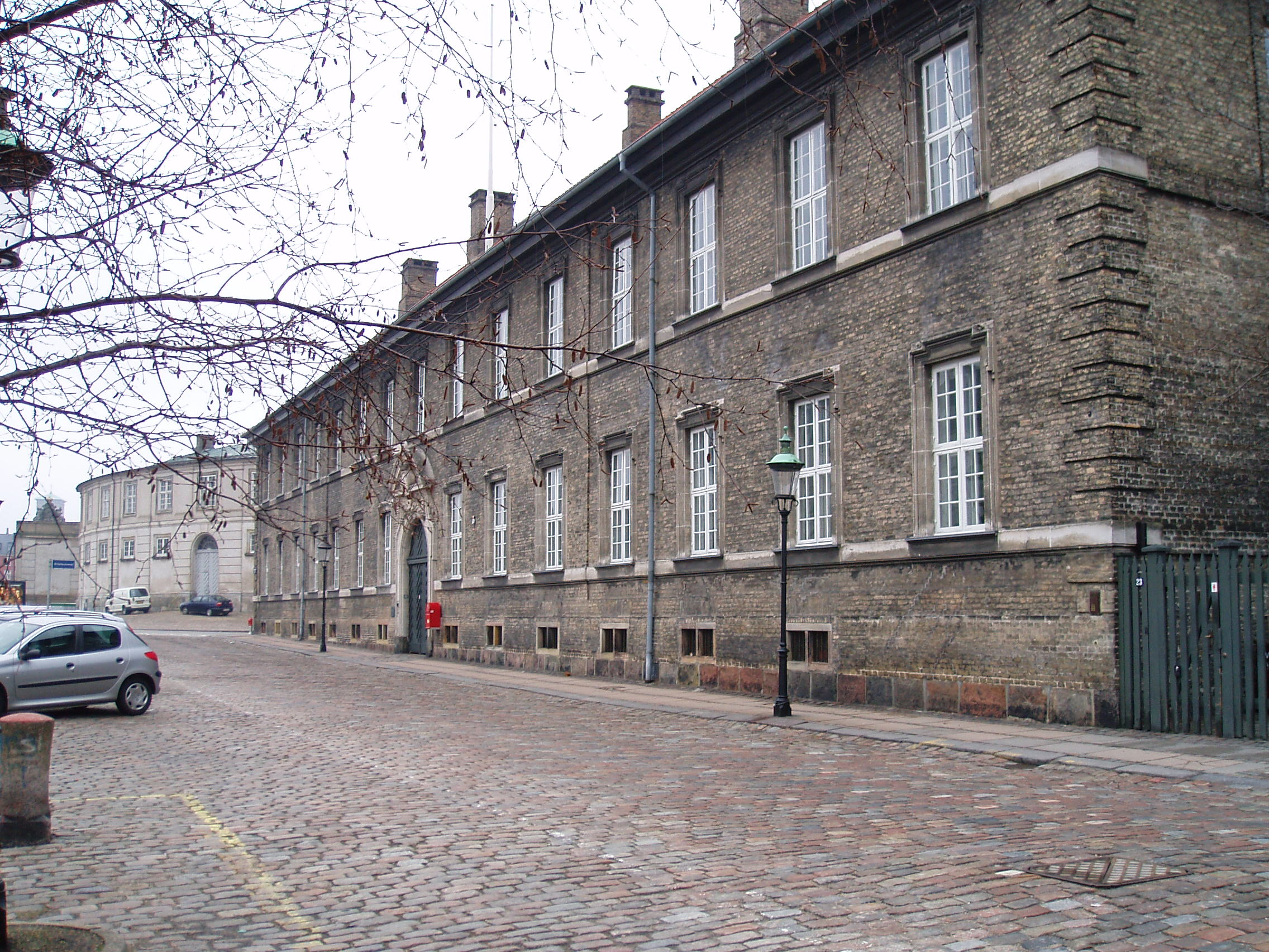 Primary offices of Danish Ministry of Education. Building shared with Danish Ministry of Churches.